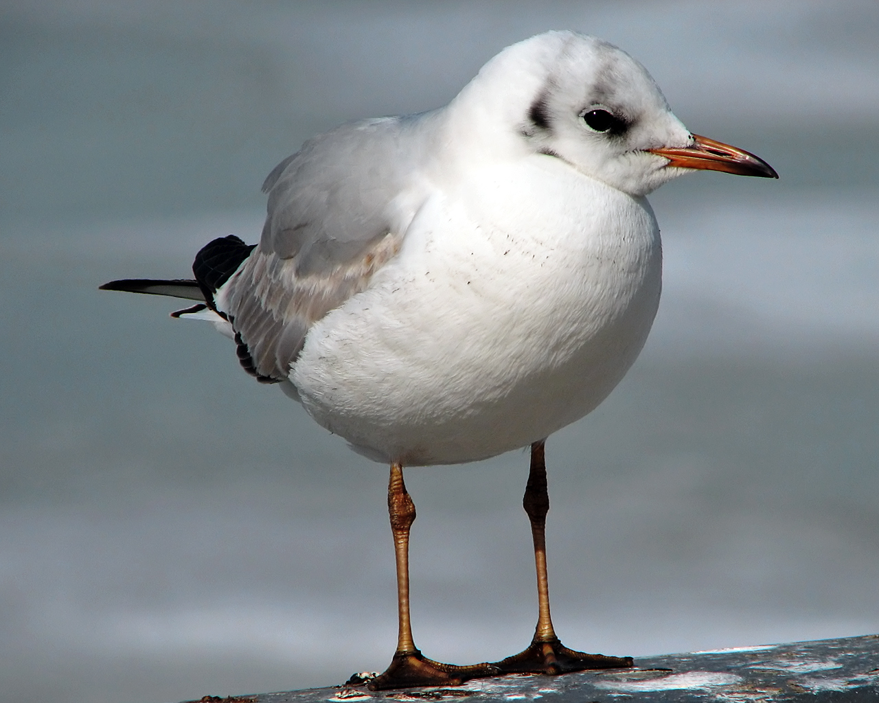 Common Black-headed Gull